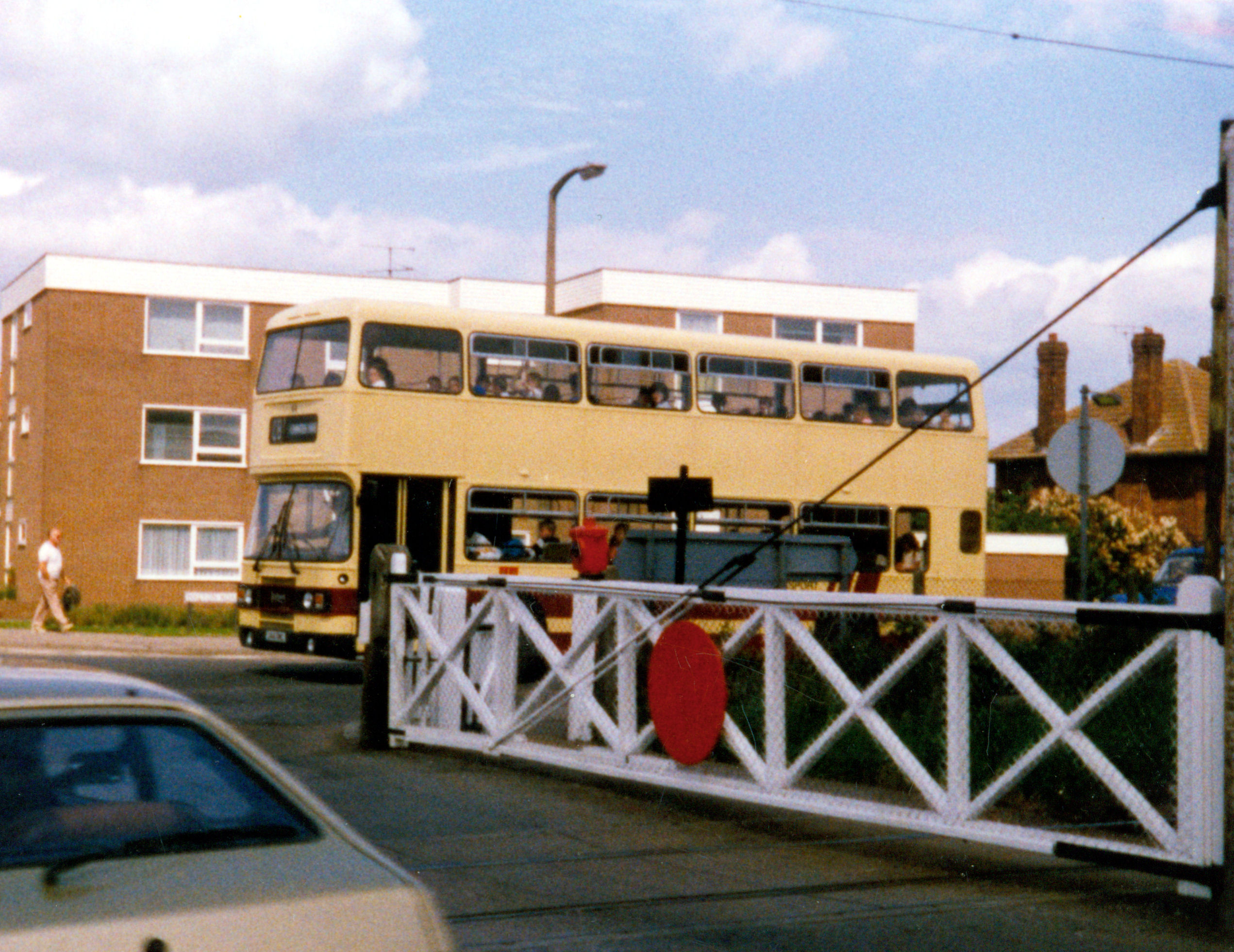 Frinton-on-Sea (1982)